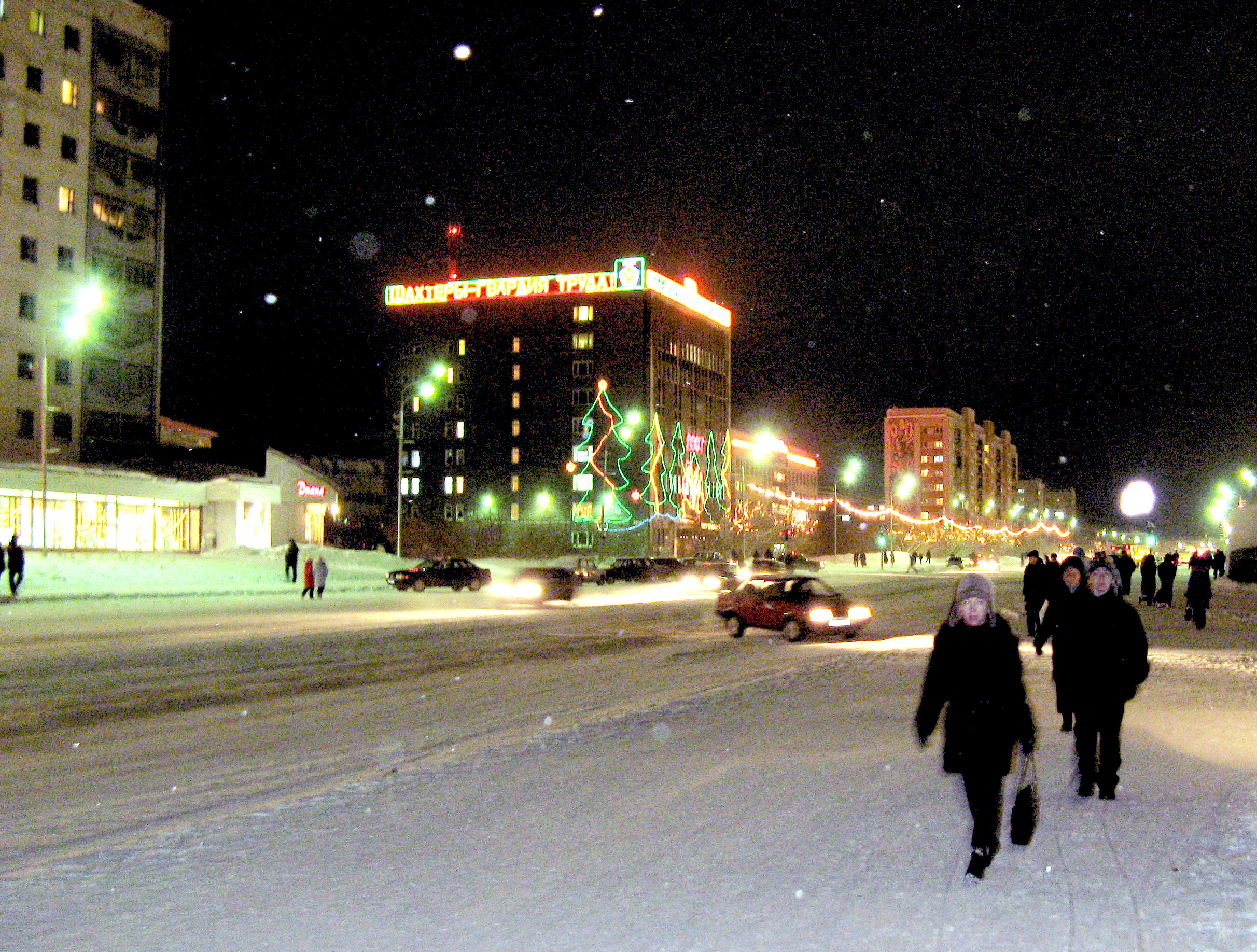 "VokrutaUgol" building (architect Alexander Shipkov) in Vorkuta at night.